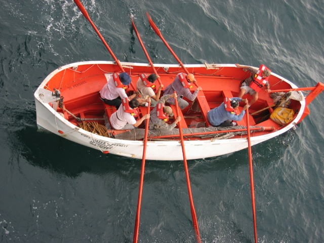 A mandatory lifeboat drill